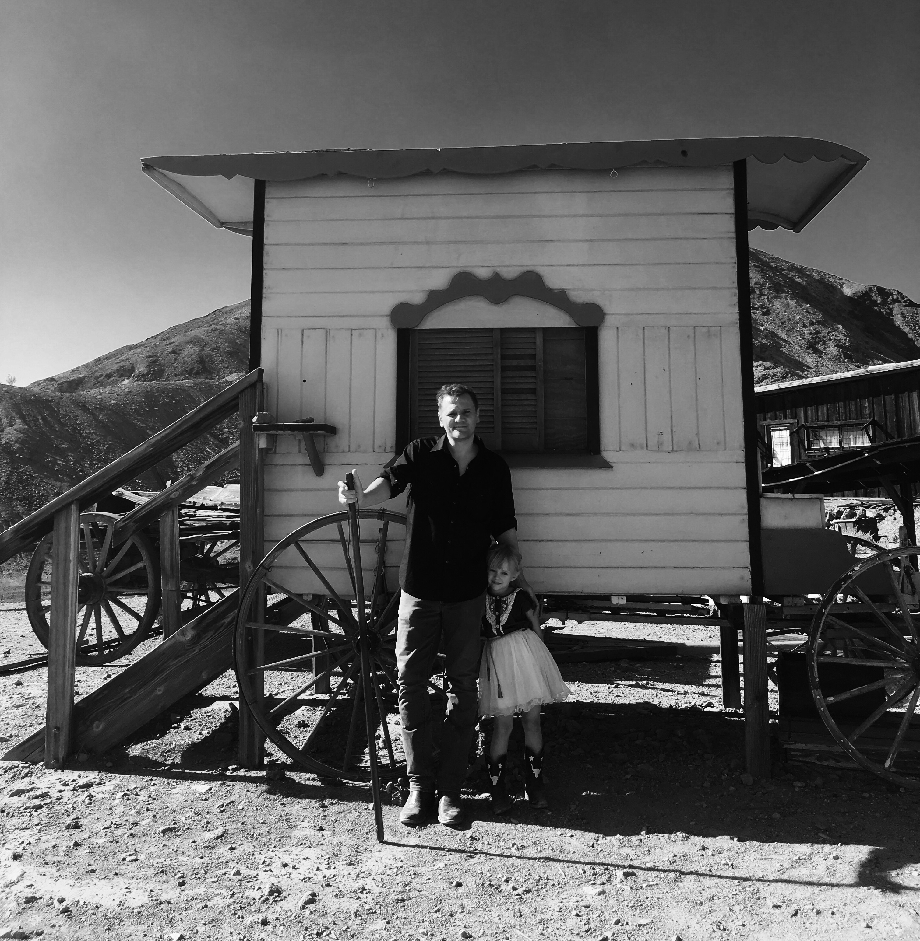 Western children's author Lorin Morgan-Richards with his daughter Berlin.